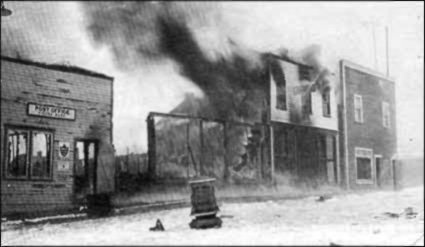 Photo of businesses core burning to the ground 1924. Vidora, Saskatchewan